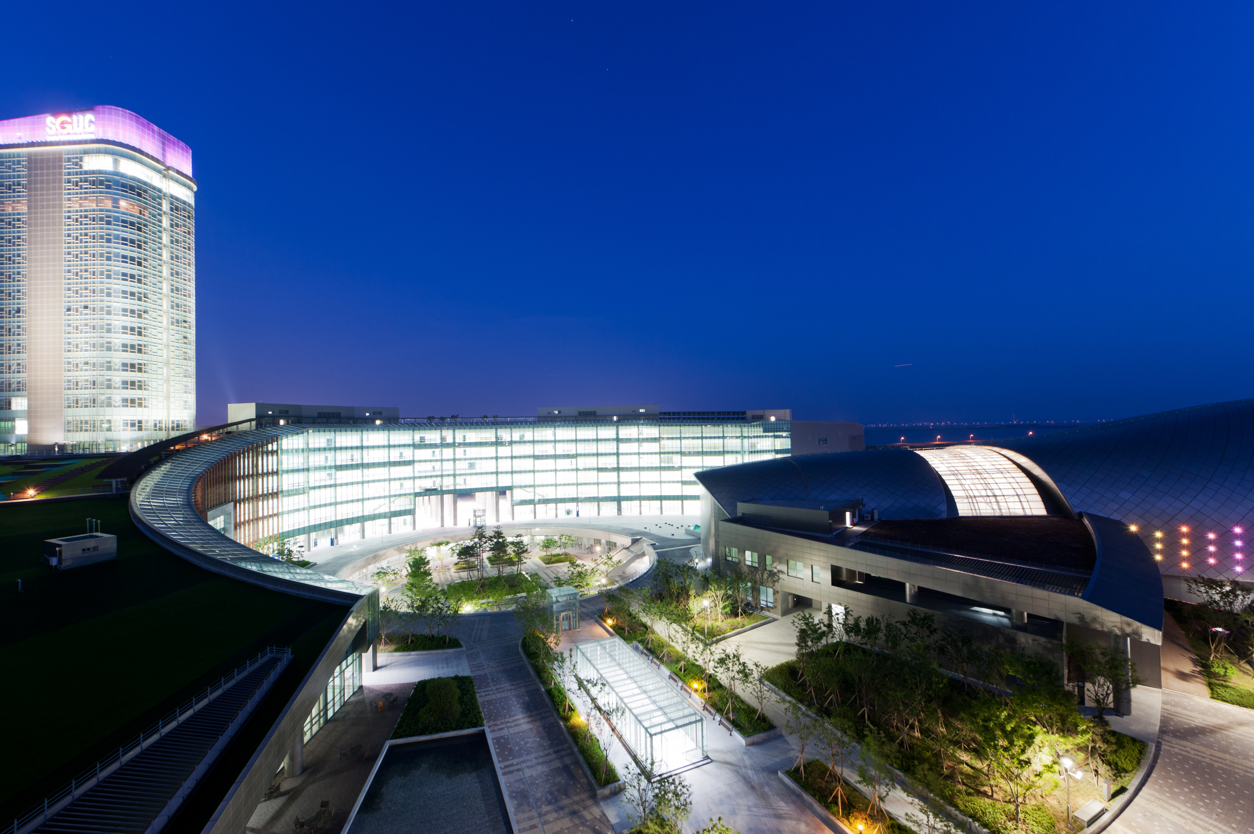 Songdo Global campus